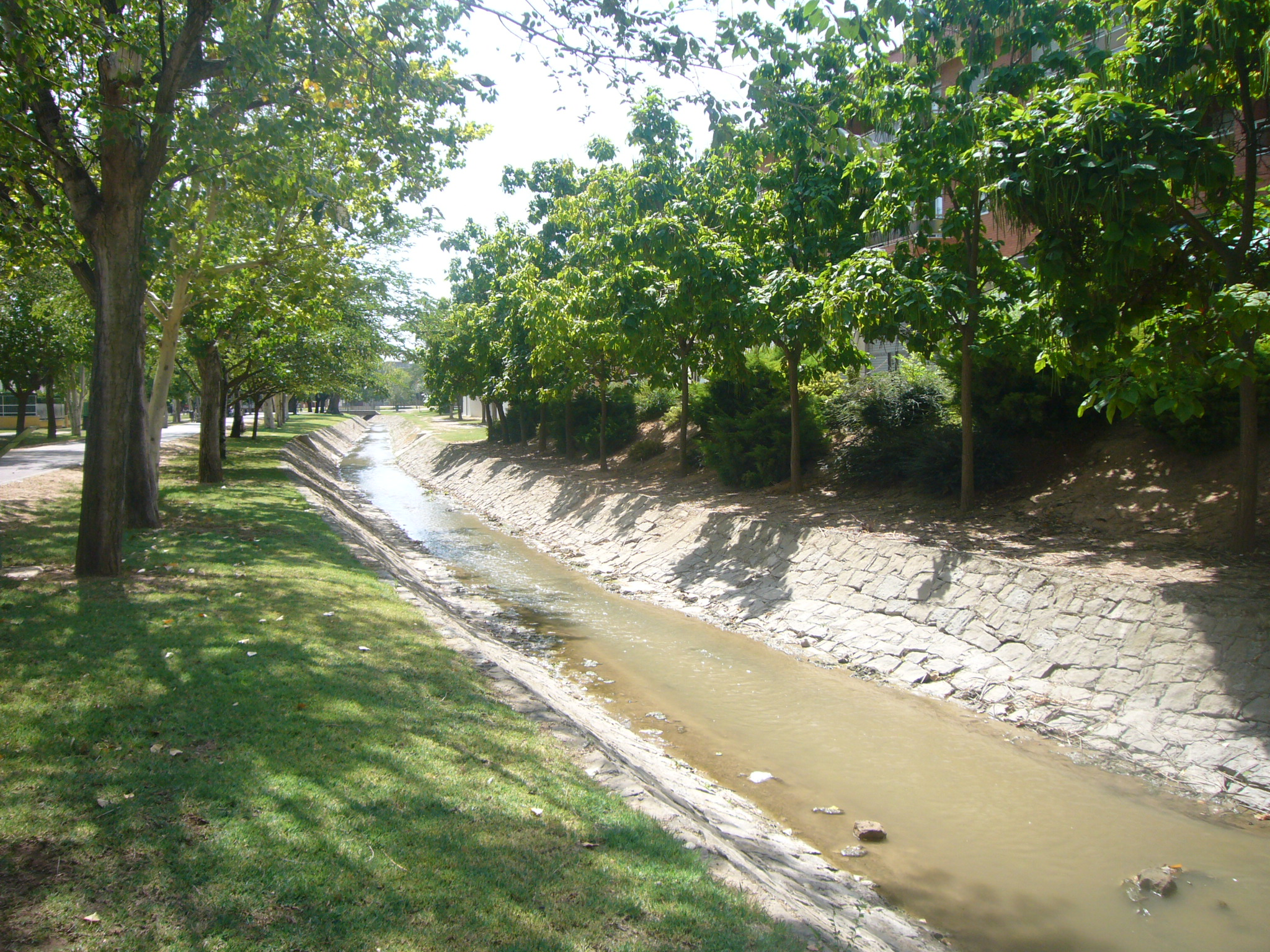 River Sió - Agramunt